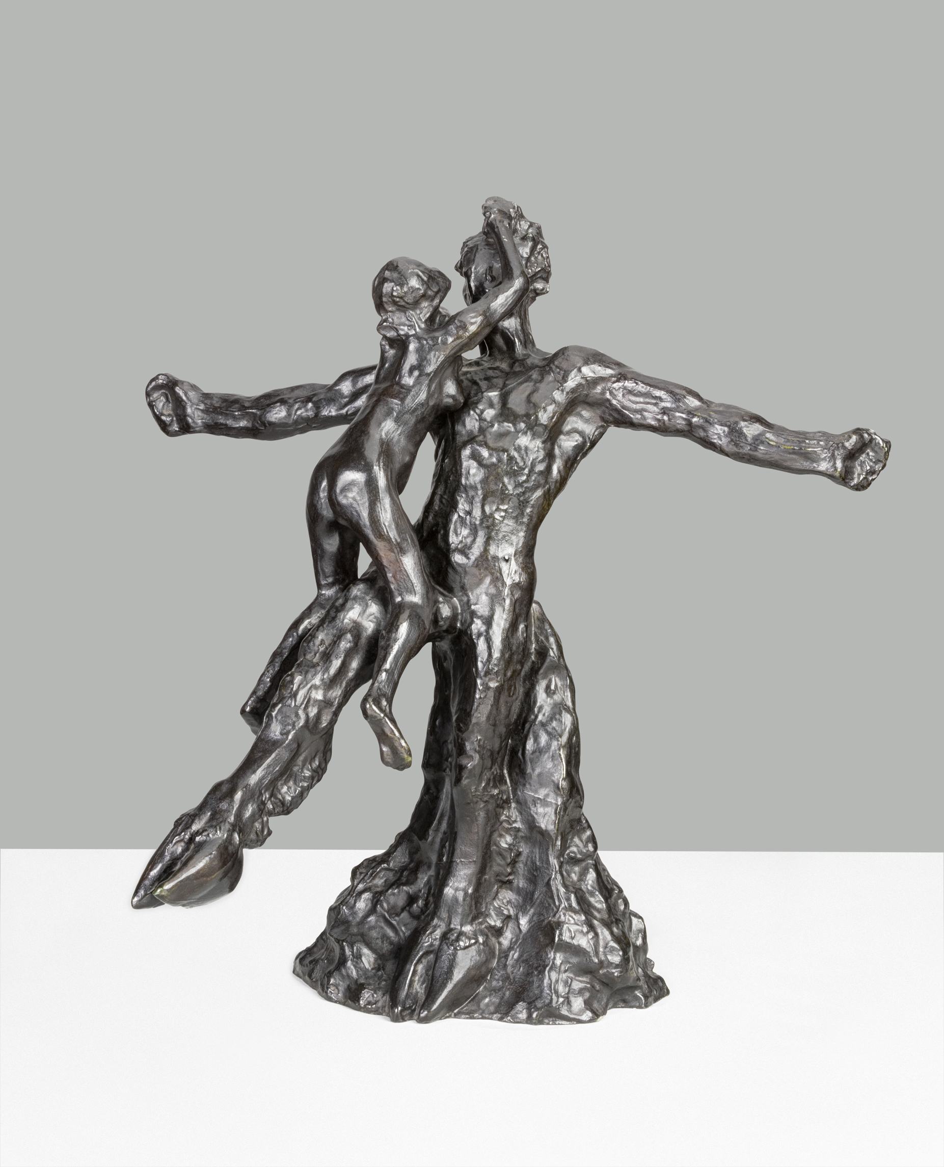 The Old Tree